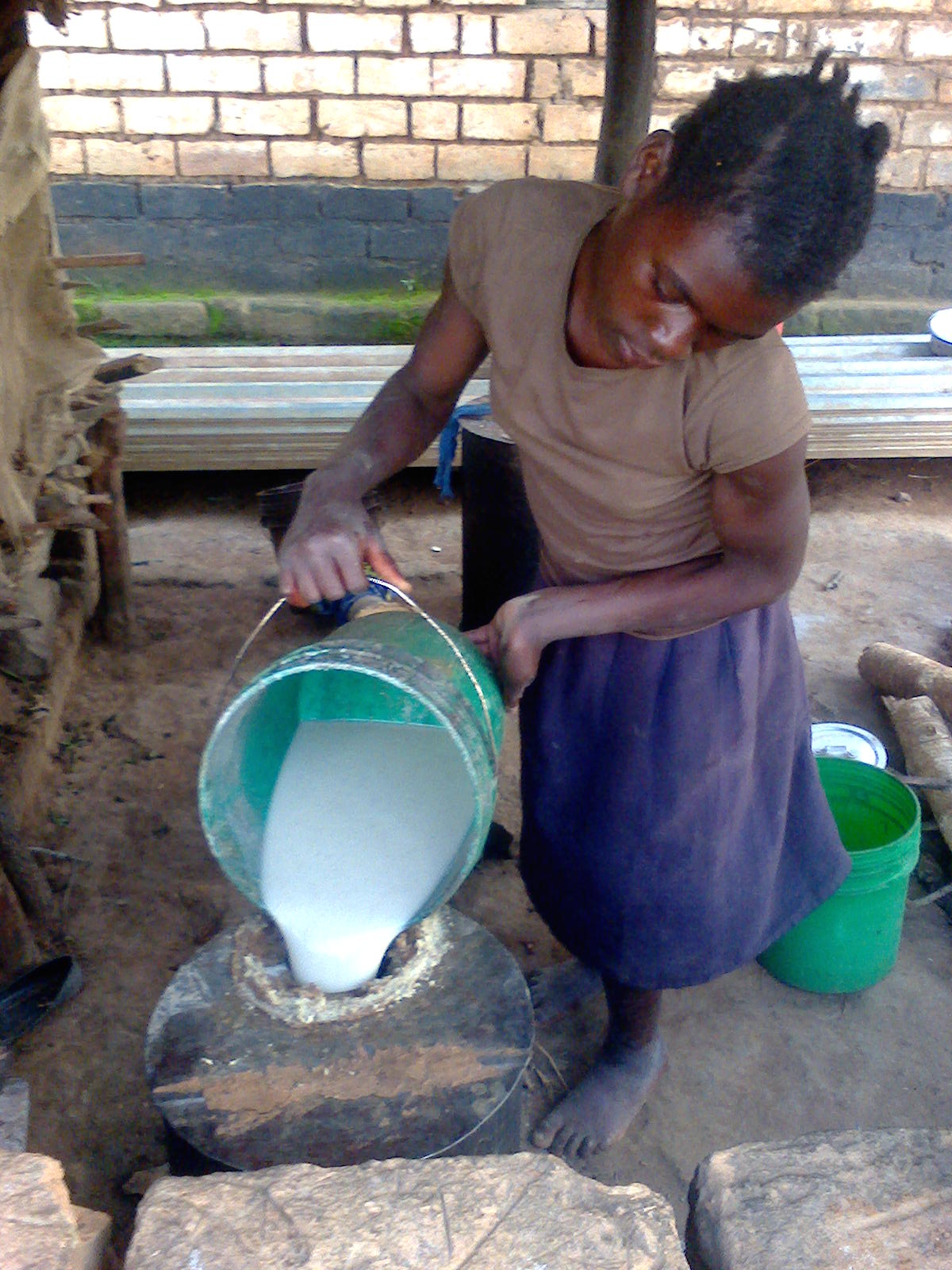 Girl brewing local beer in rural Zambia This is an image of "African people at work" from Zambia